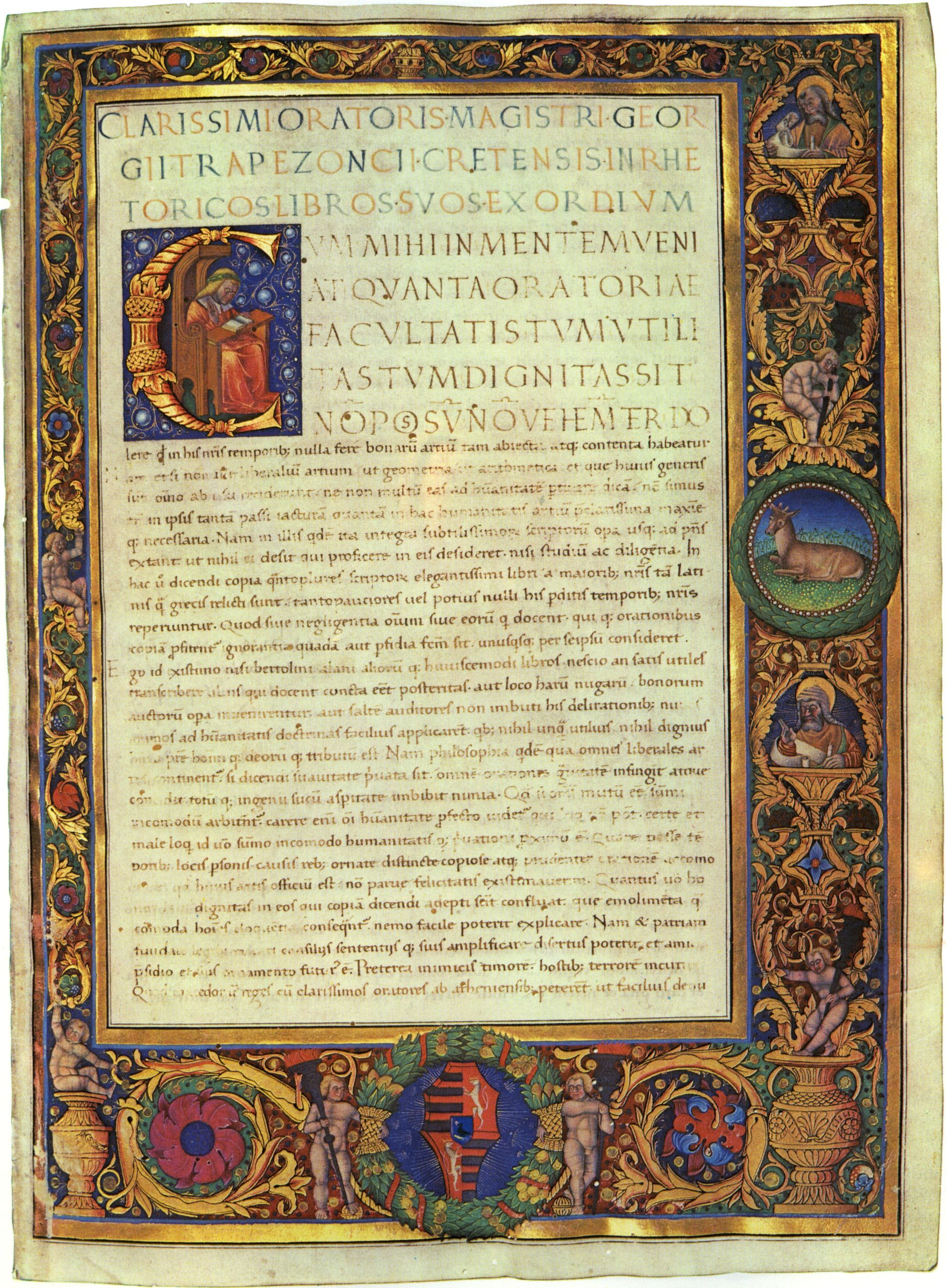 George of Trebizond, Rhetoric, in a 15th century manuscript. Humanistic semi-cursive script with gothic elements. Budapest, Széchényi National Library, Cod. Lat. 281, fol. 1r.